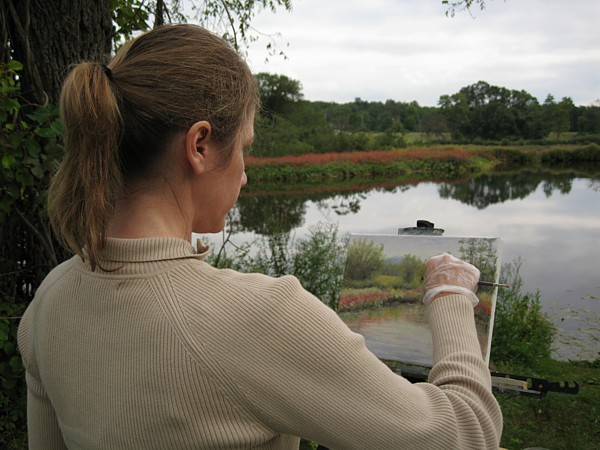 Artist Liron Sissman painting en plein air in Ringwood State Park, New Jersey, USA